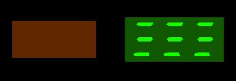 KVB_transmission_during_trip